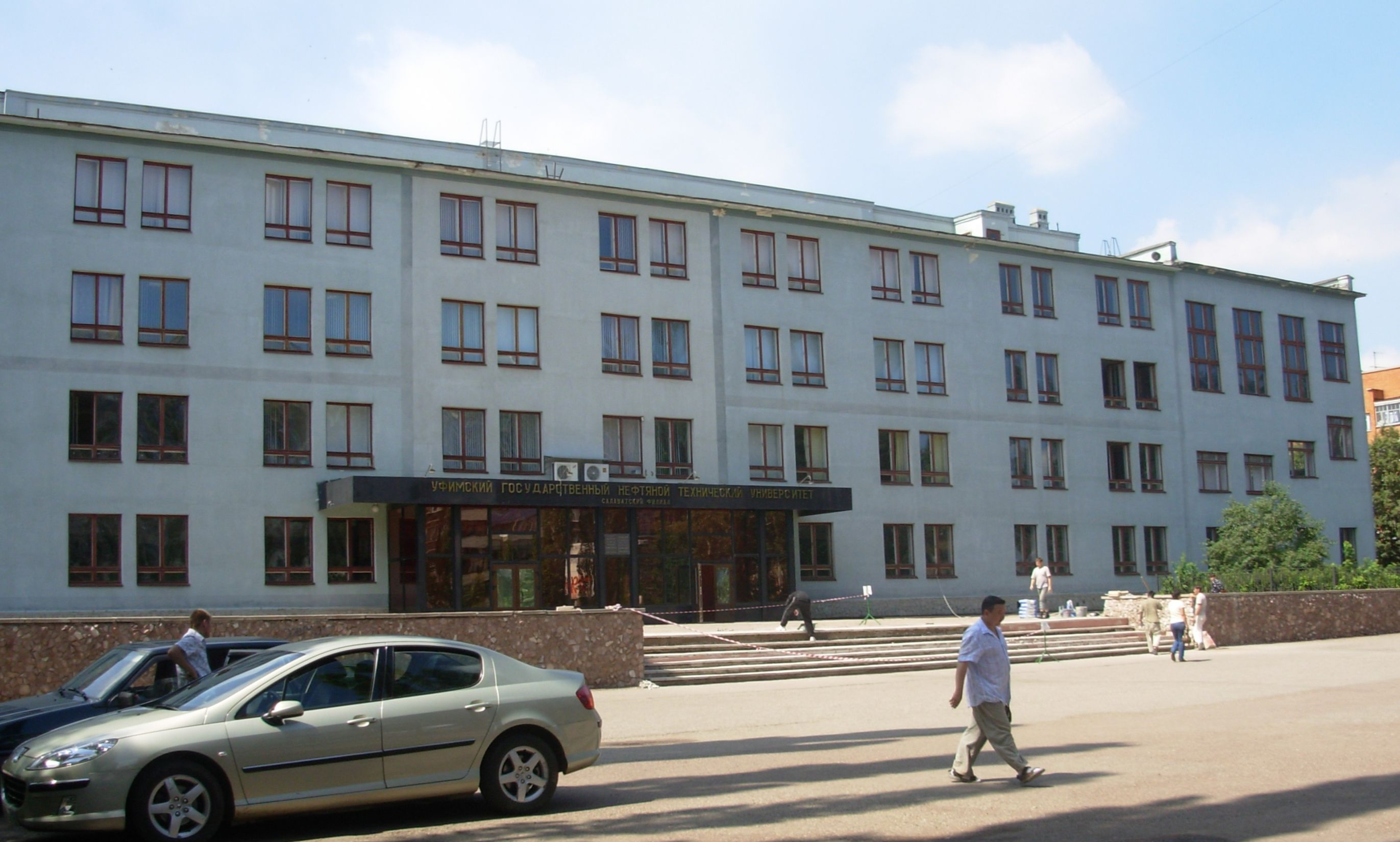 street